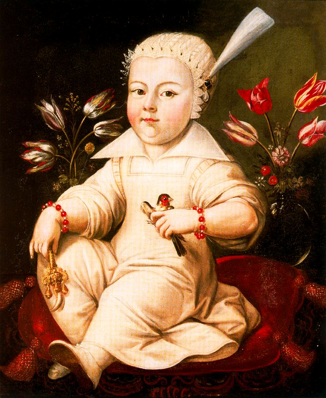 Portrait of Stanisław Bogusław Leszczyński.